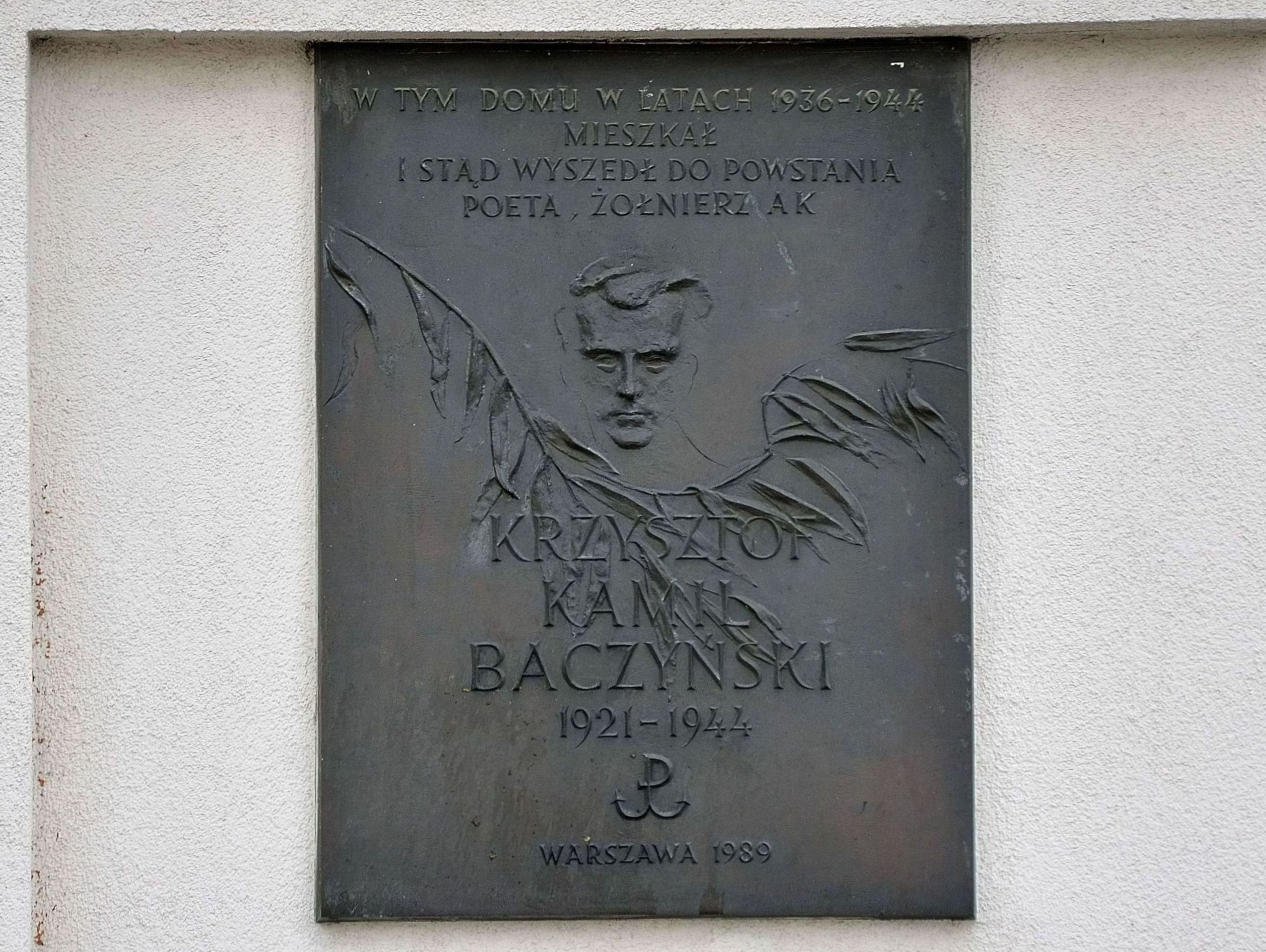 Plaque in memory of Krzysztof Kamil Baczyński at 3 Hołówki Street in Warsawa